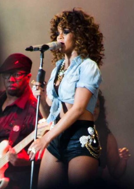 Rihanna at the V Festival 2011